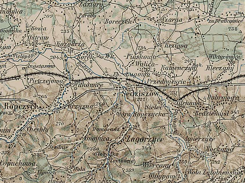 Part of map form 1910 with Sędziszów Małopolski and neighbourhood